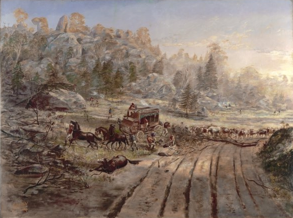 Stage coach hold-up, Eugowra Rocks, oil on canvas, 137.5 x 183 cm